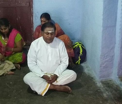 Deavanga Guru Chandramouli swamjii